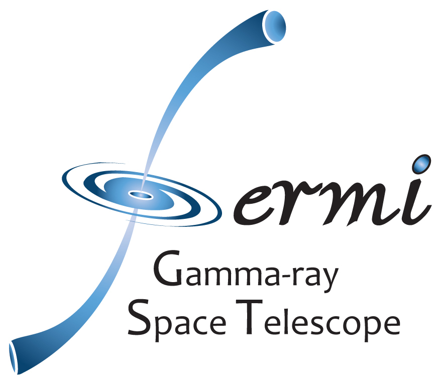 Logo for the Fermi Gamma-ray Space Telescope.